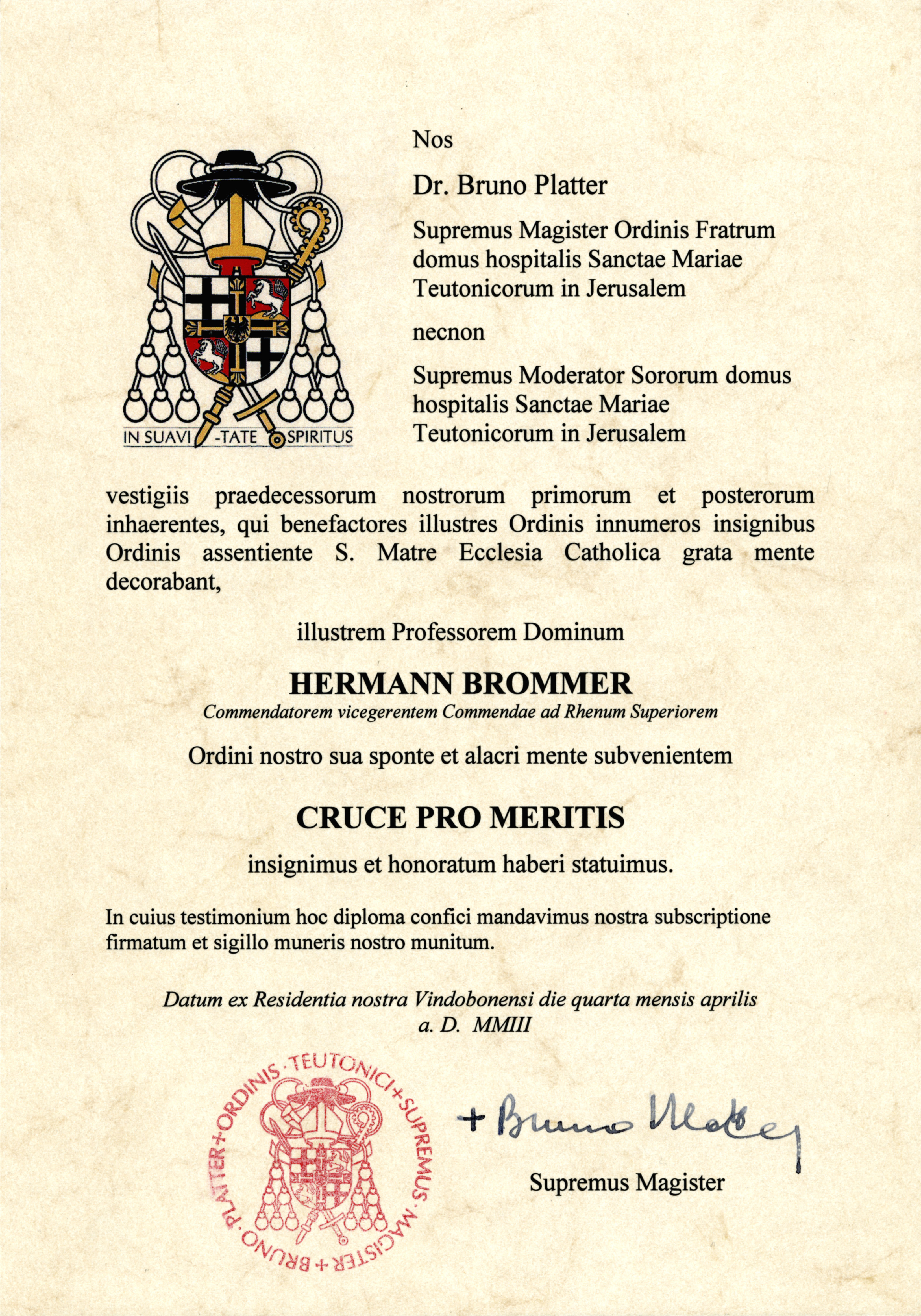 Certificate for medal of honor for Hermann Brommer